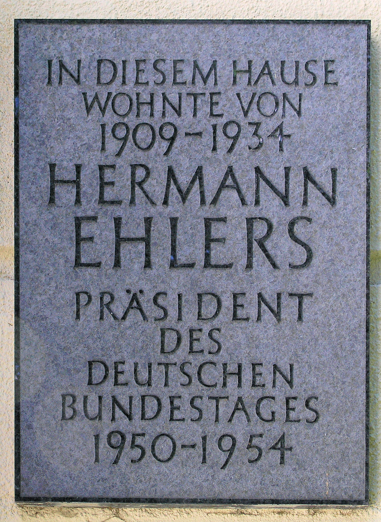 Memorial plaque, Hermann Ehlers, Poschingerstraße 6, Berlin-Steglitz, Germany Koordinate:52°27′50″N 13°20′25″E / 52.46389°N 13.34028°E